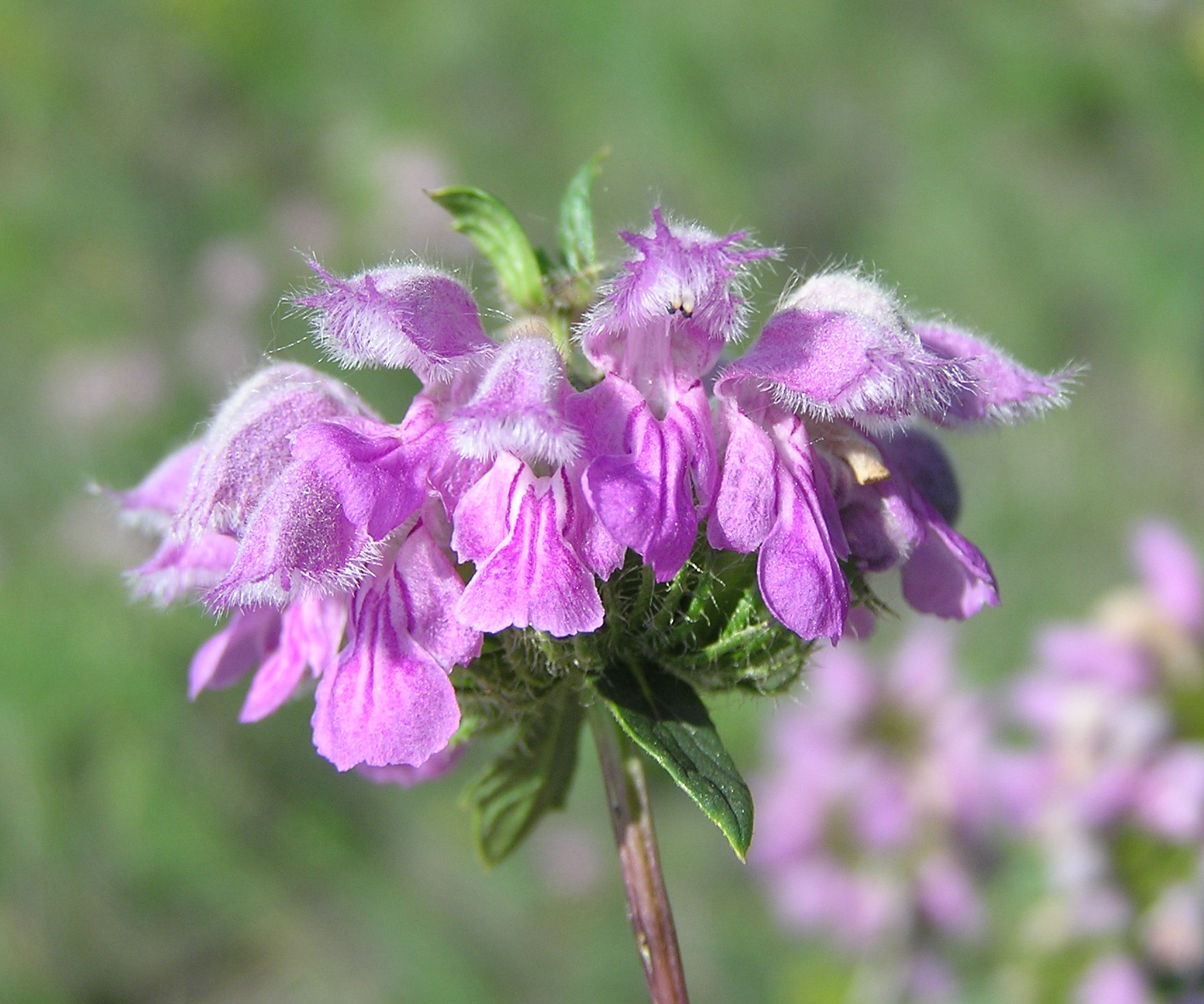 Phlomis tuberosa L. (syn.: Phlomoides tuberosa (L.) Moench). Habitat: meadow steppe. Vicinity of Saratov city, Russia.